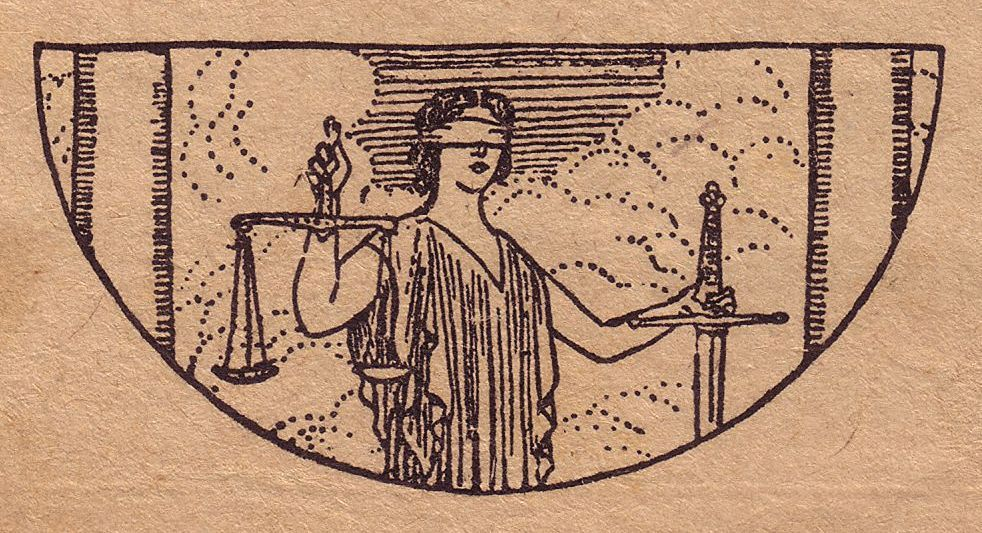 Femida, 1916. SPb Magazine "Жизнь и судъ", №12 - 1916, march.